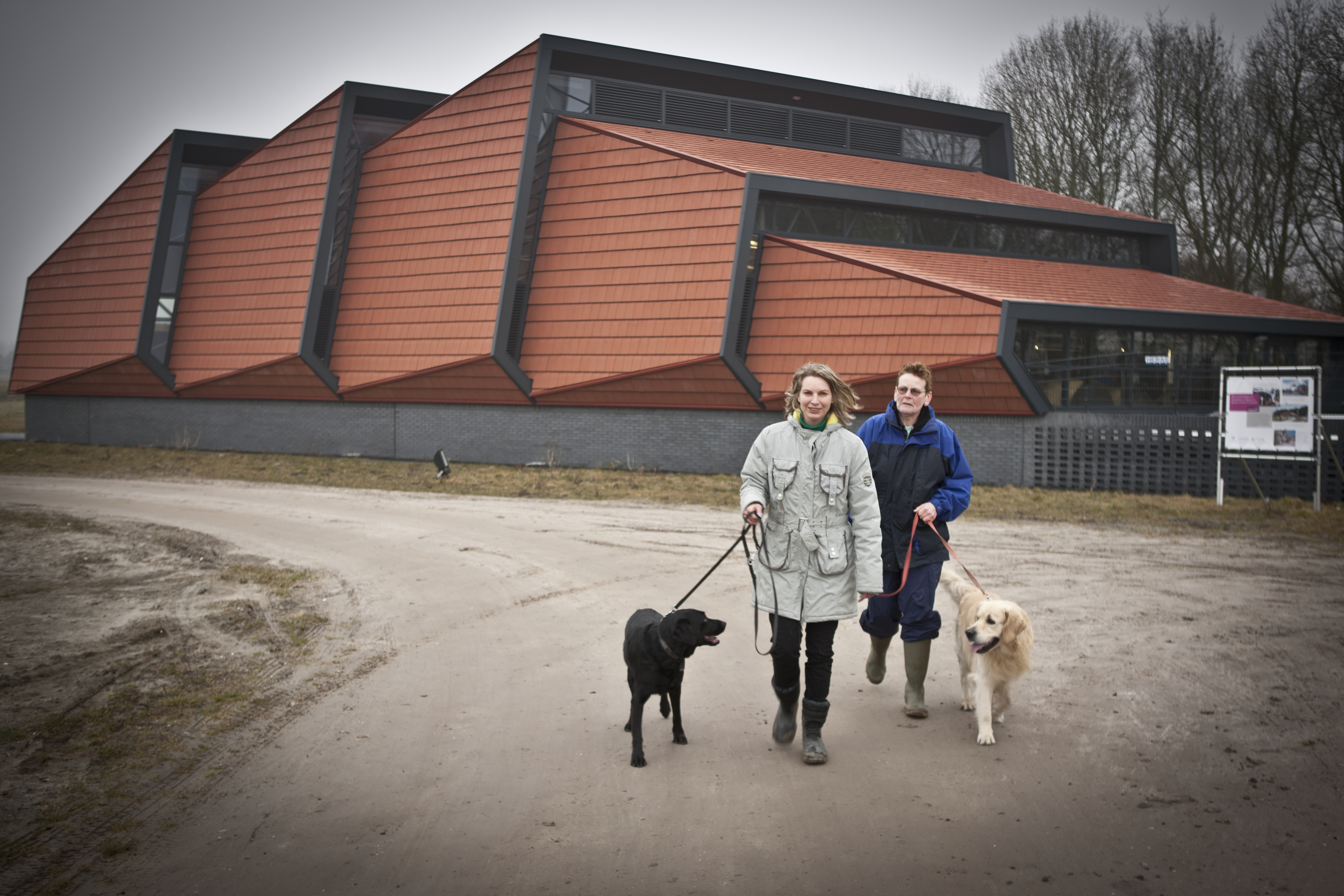 Biogas plant EcoZathe in Leeuwarden, Zuidlanden.